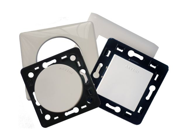 picture of a batteryless and wireless wallswitch